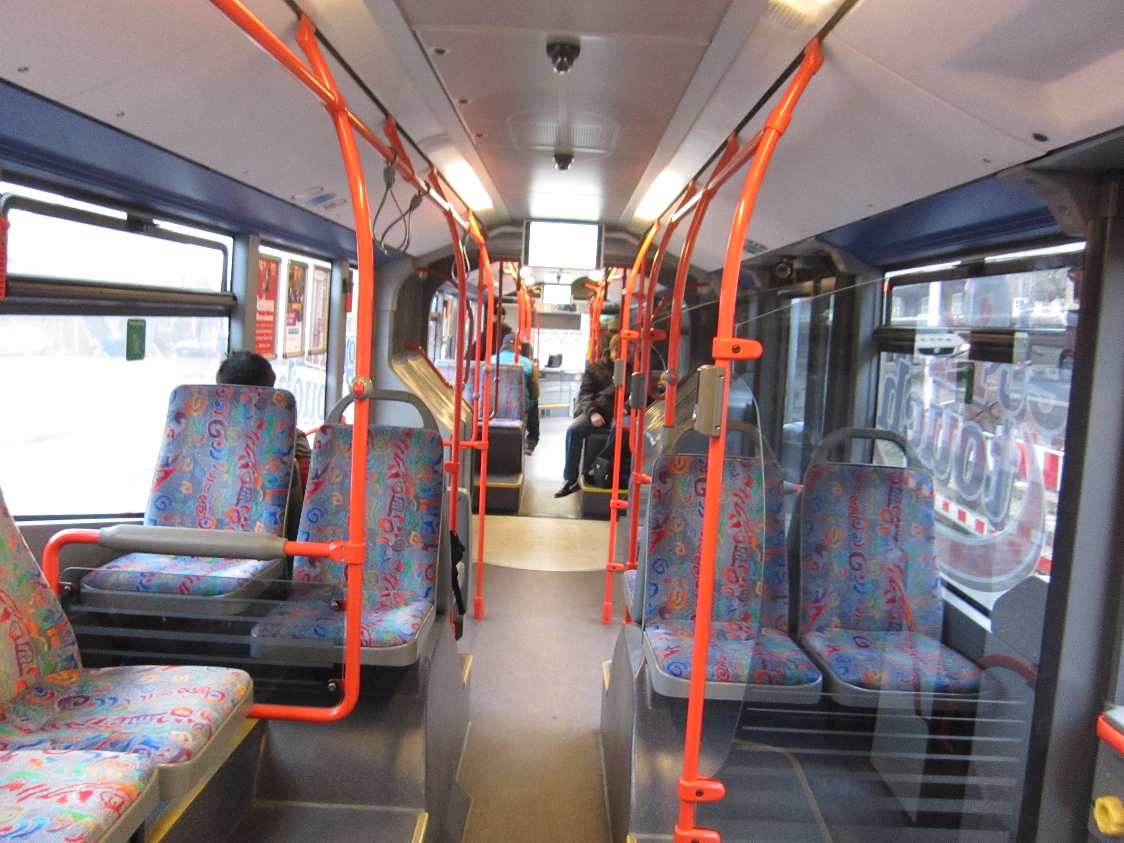 Interior of a bus in Flensburg